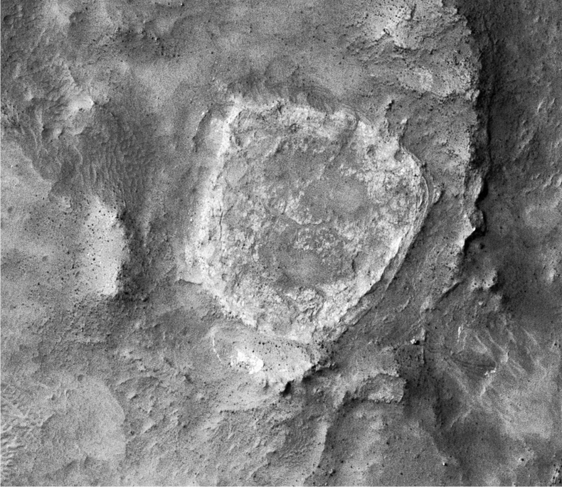 Home Plate on Mars by Mars Reconnaissance Orbiter